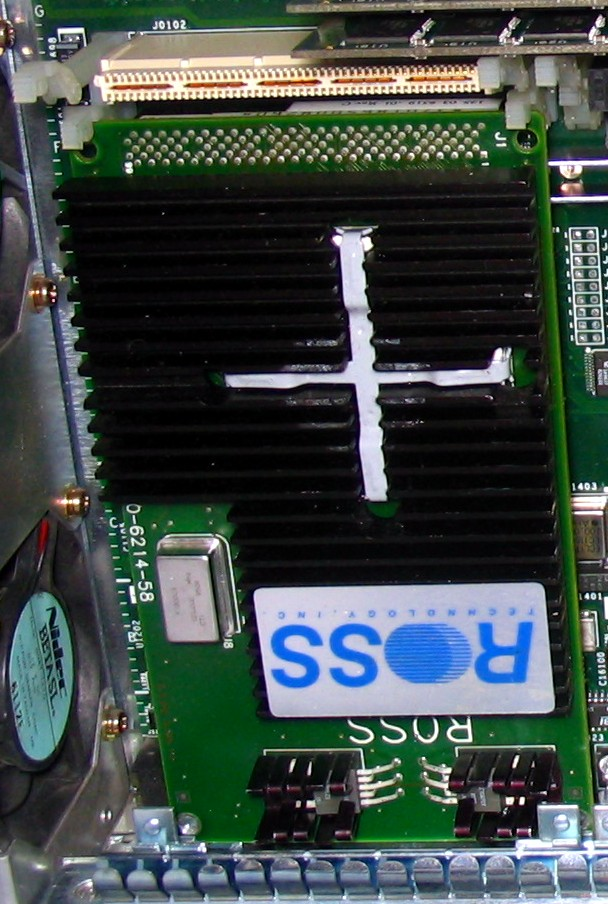 two MBus-slots, one occupied by CPU-module